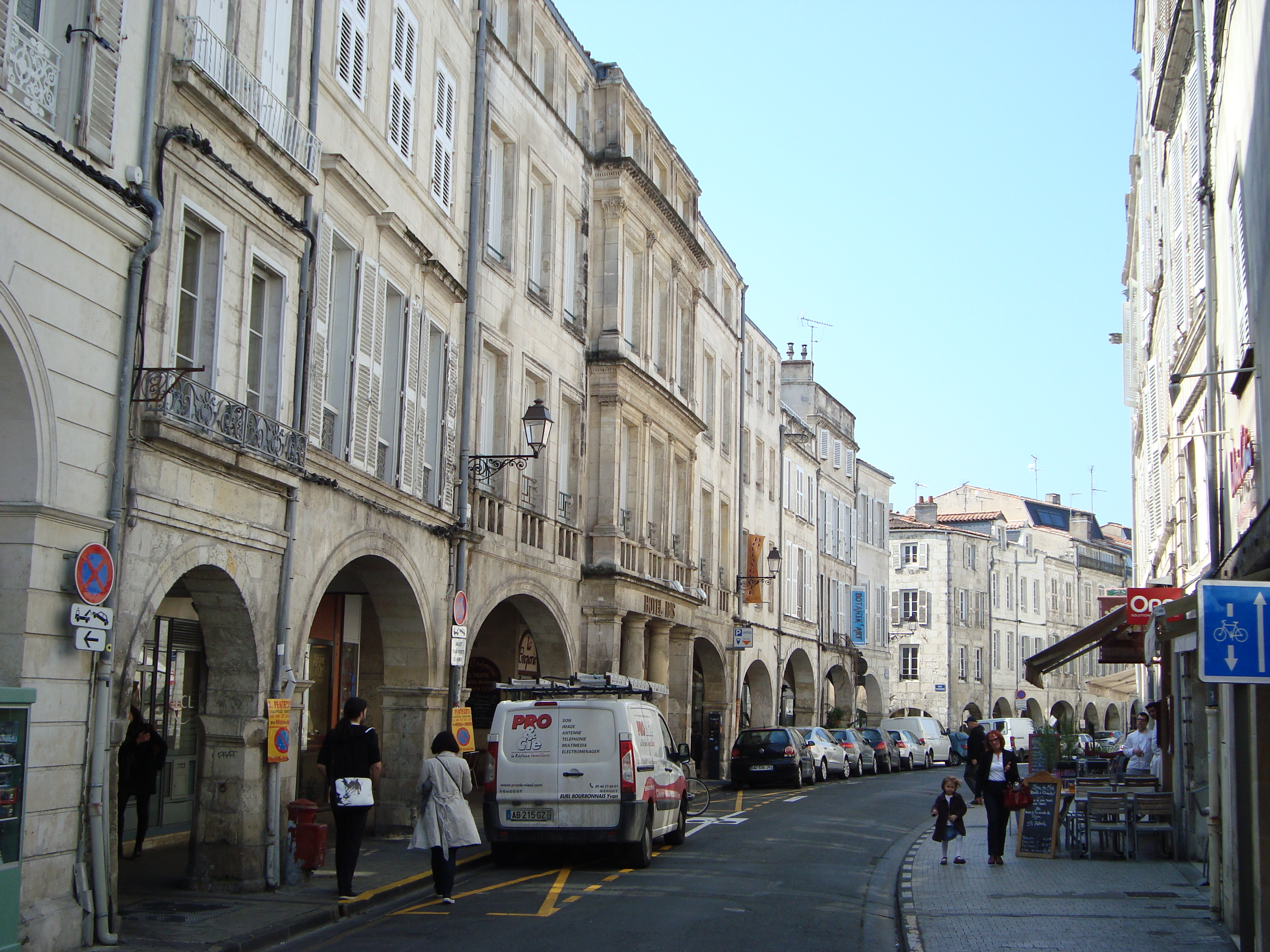 Rue Chef de Ville, La Rochelle